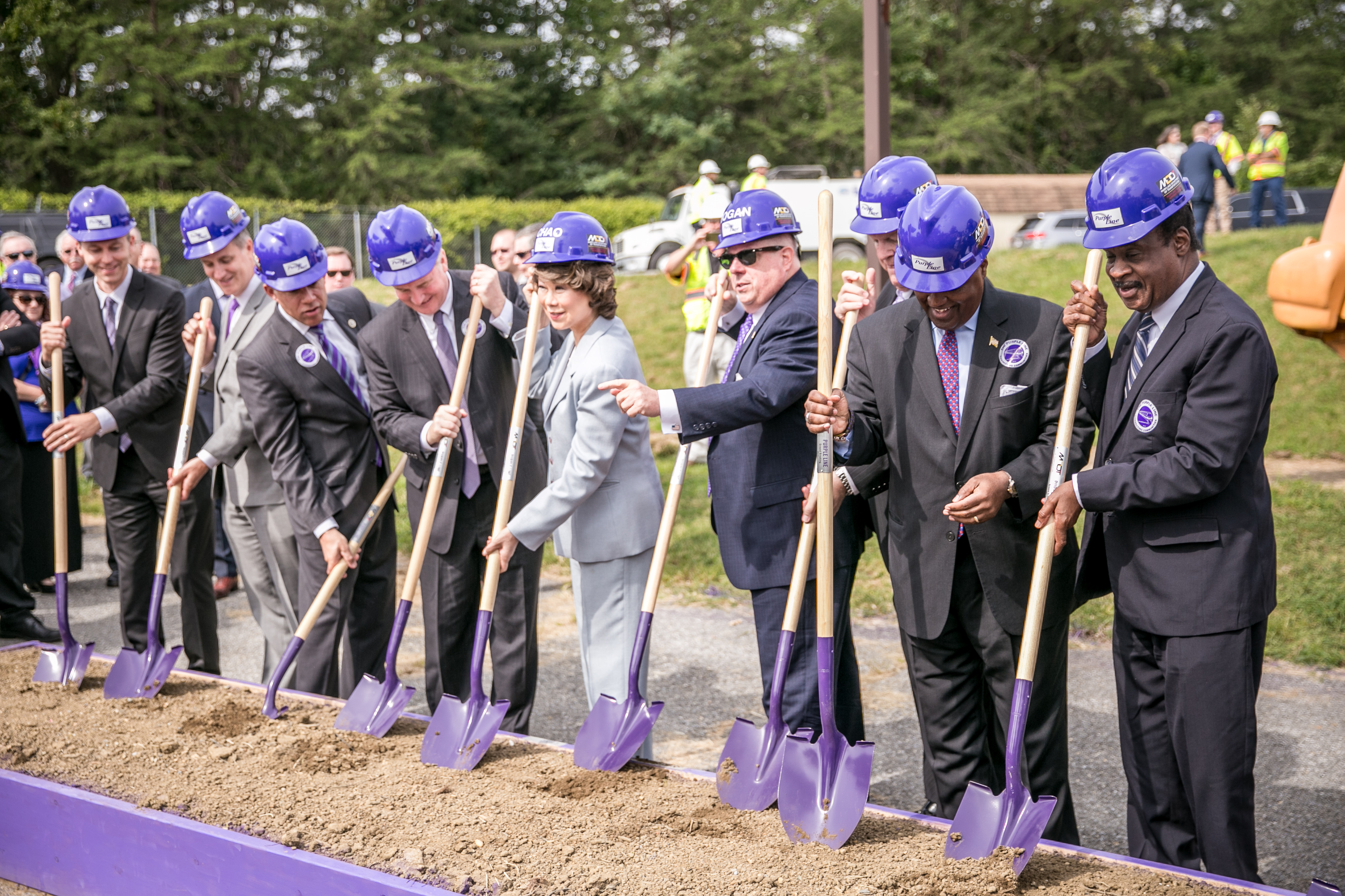 Purple Line groundbreaking in New Carrollton, MD photo credit/Coalition for Smarter Growth (Aimee Custis)